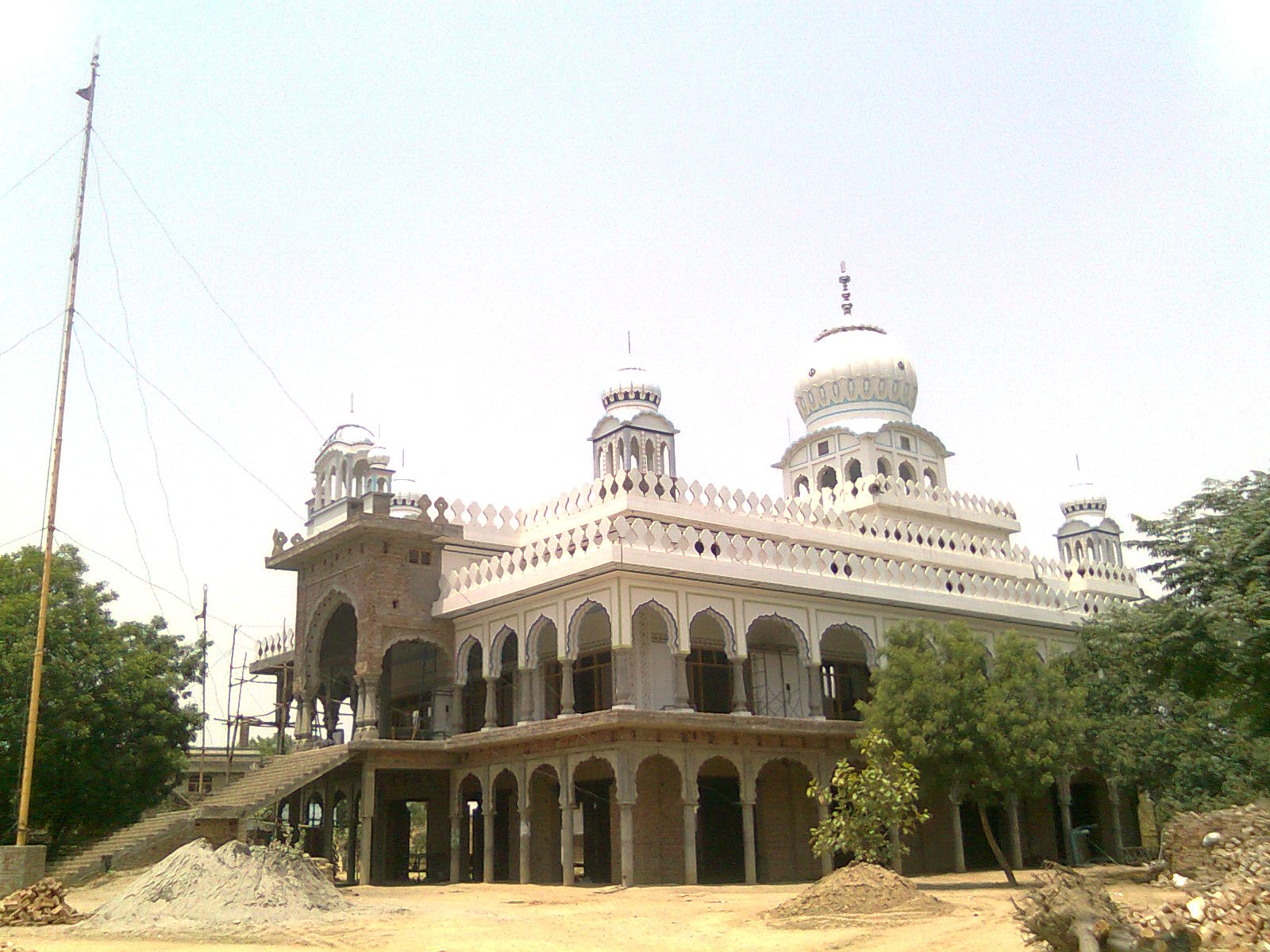 The new (not compeleted yet) building of the Gurudwara Sahib of Raipur village in Mansa district of East Punjab.